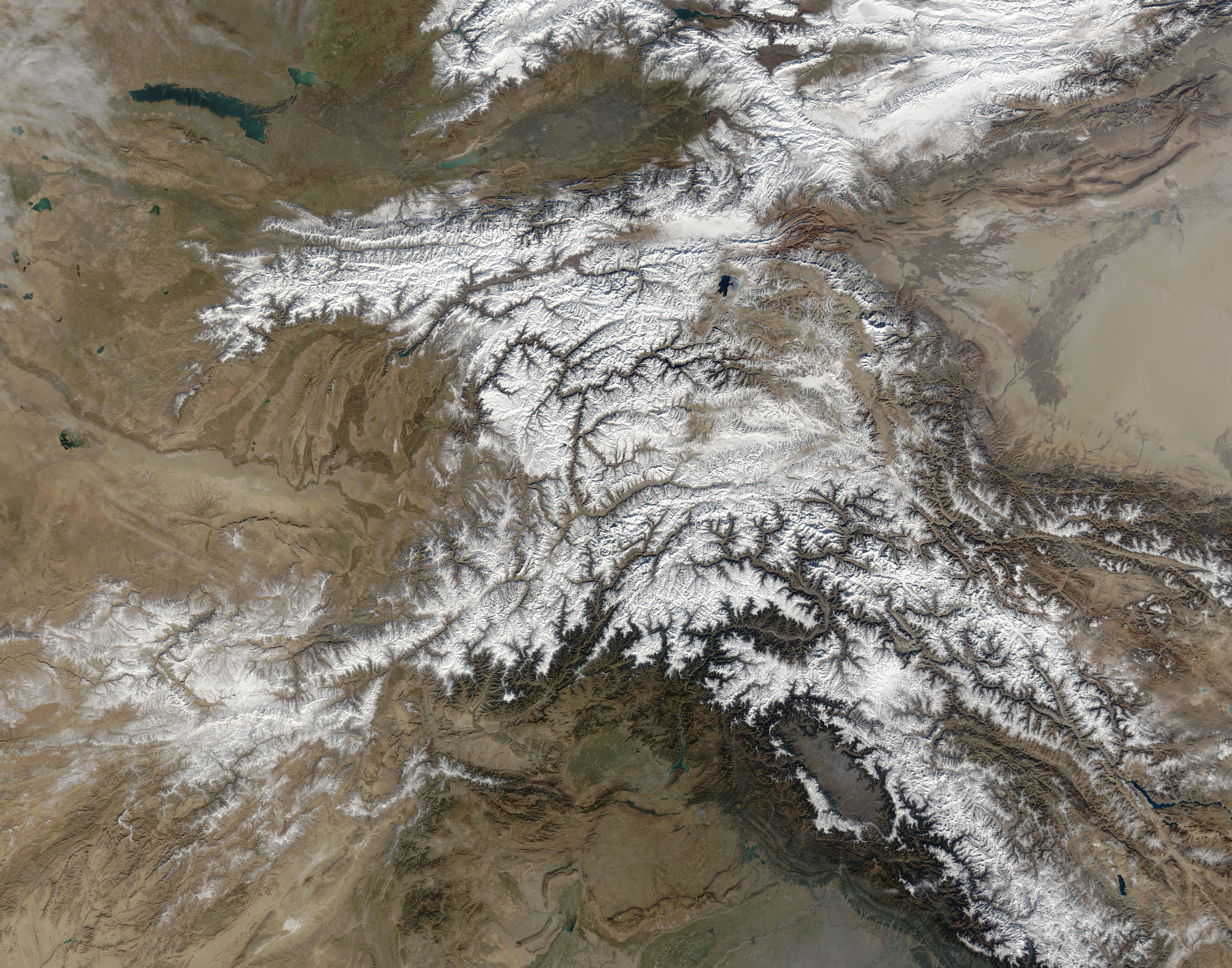 The Hindu Kush occupies the lower-left-center of this true-color MODIS satellite image, acquired 28 November 2003.